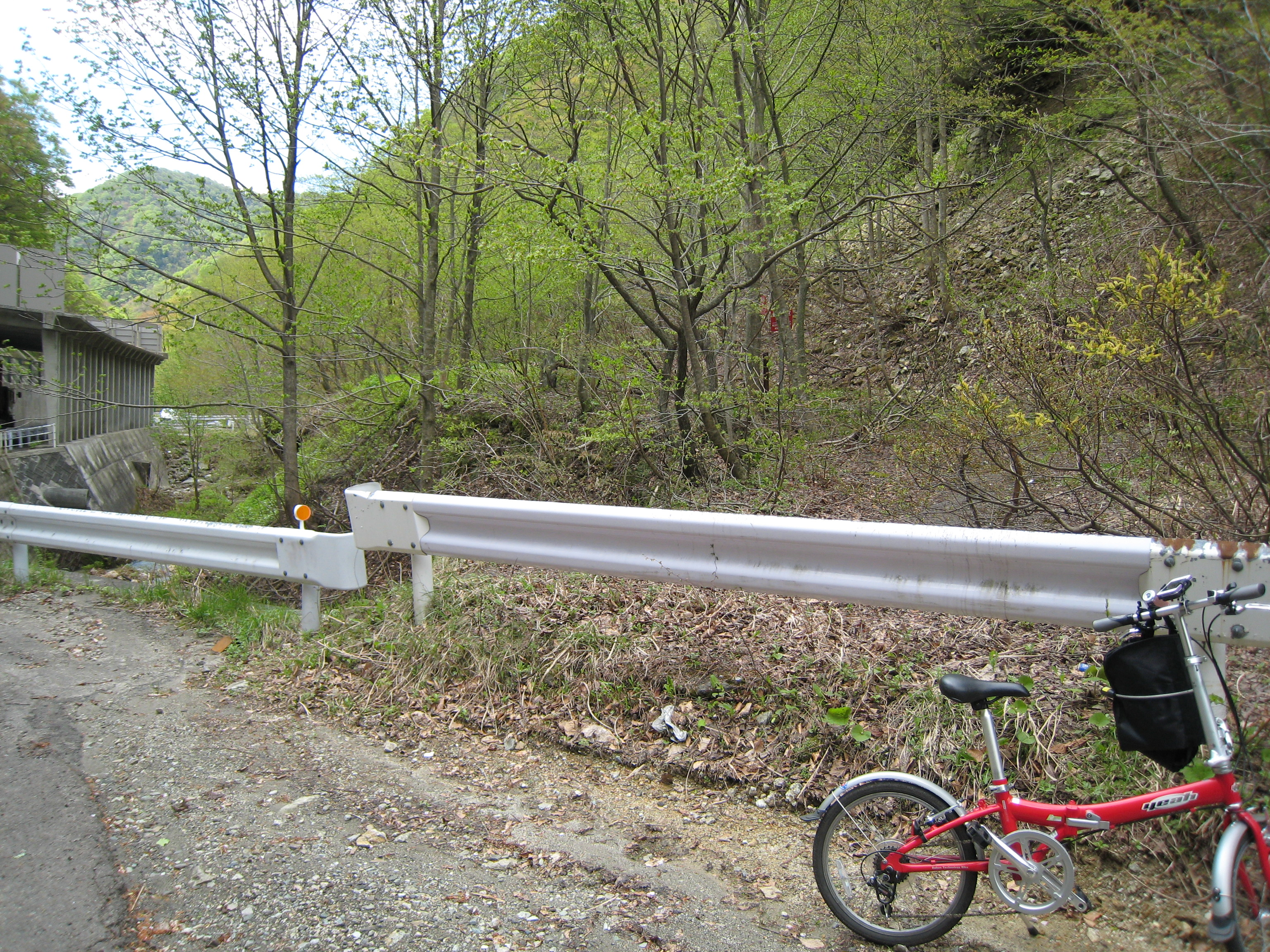 The old road of Sekiyama tunnel in Miyagi, which has already become the wildlife protection area.